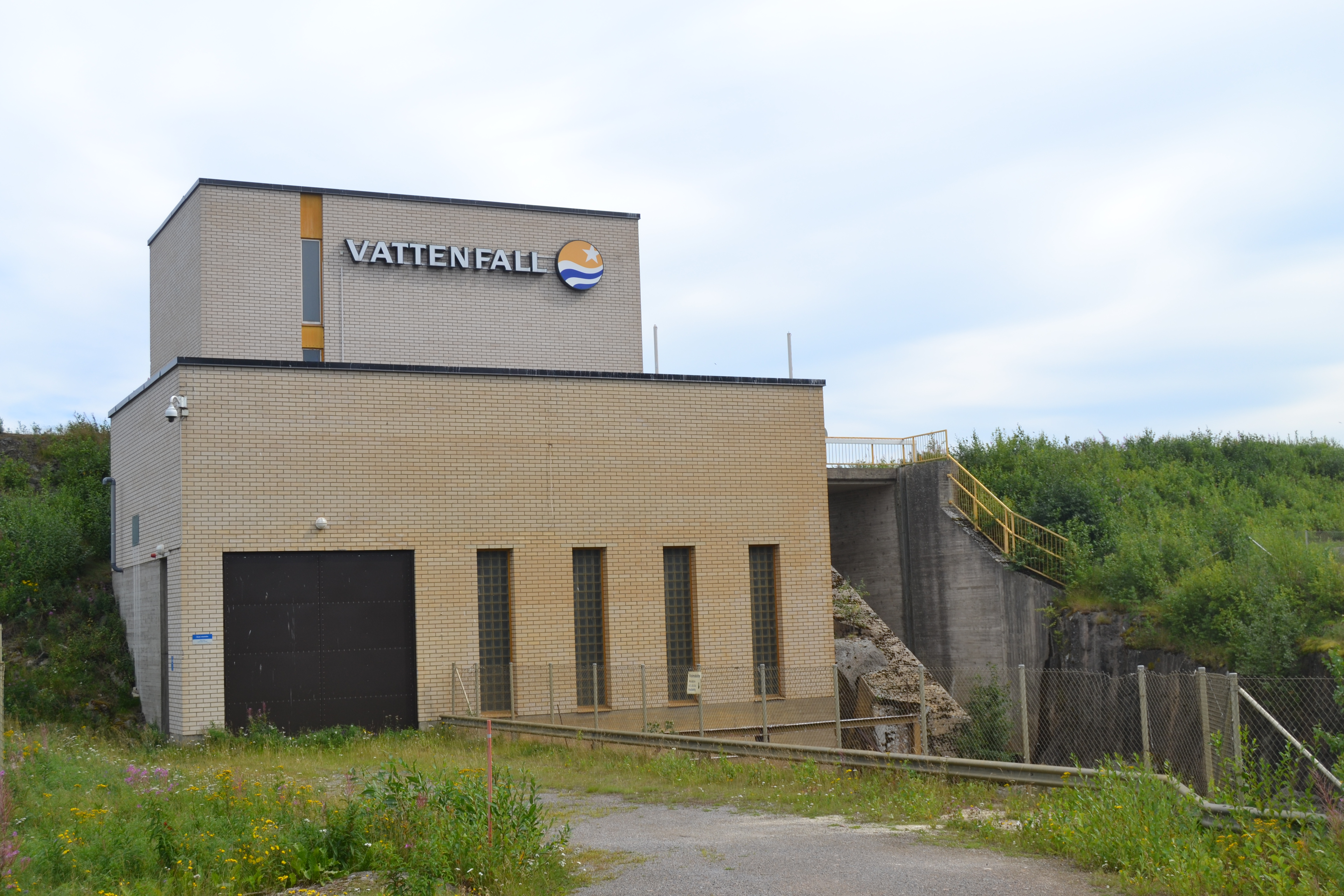 Uljua hydroelectric power plant in Pulkkila, Siikalatva, Finland